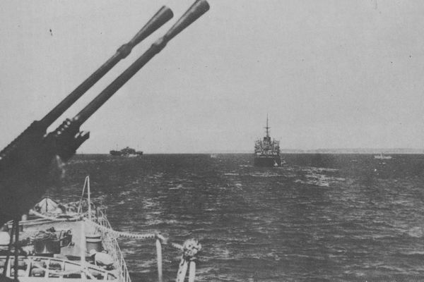 Light cruiser Katori (bow and 25 mm AA guns), auxiliary submarine tender Rio de Janeiro Maru, two submarines, auxiliary submarine tender Yasukuni Maru, and one submarine (left to right) at Kwajalein Atoll